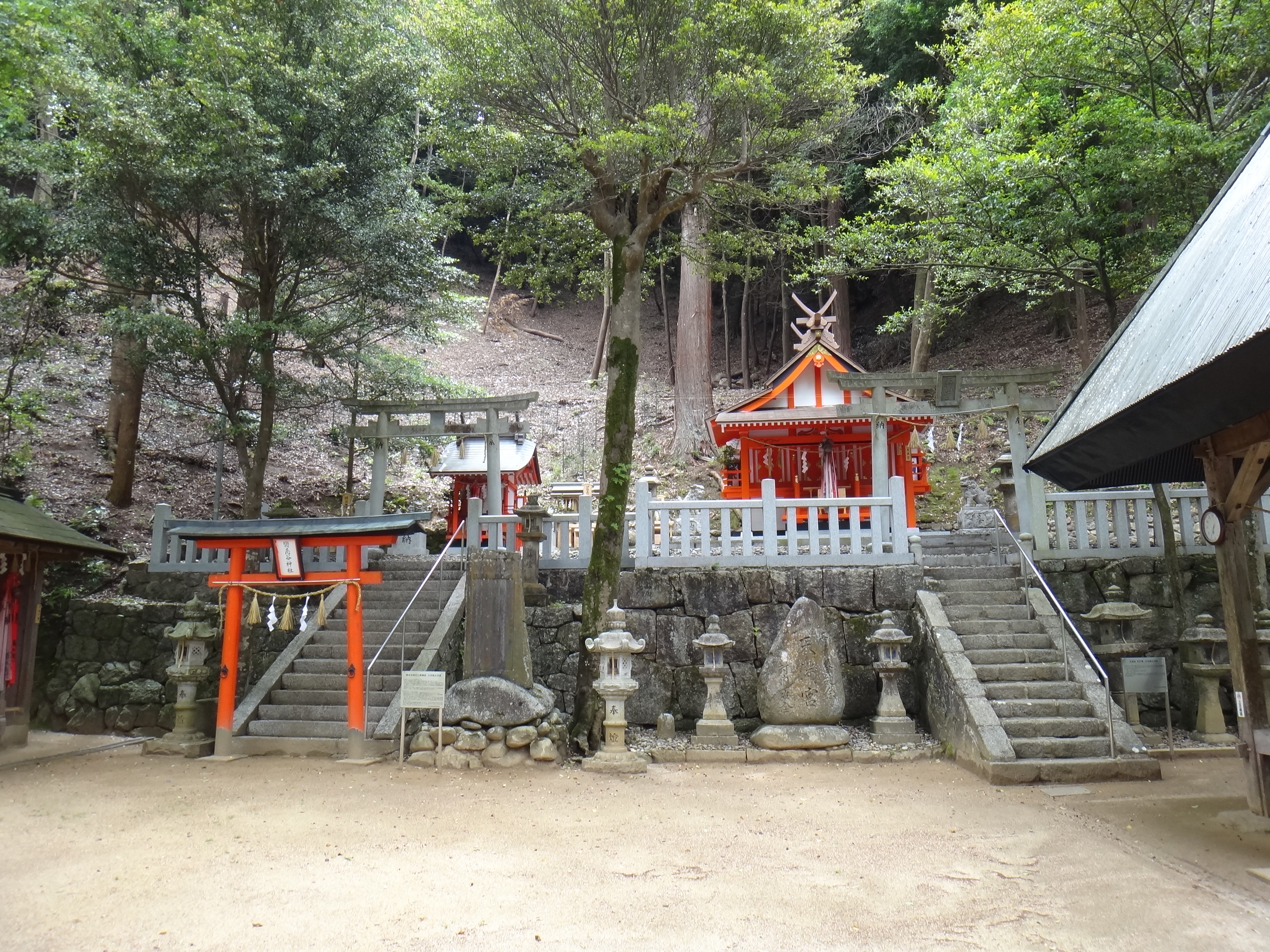 koijidani-jinjya-Shinto shrine